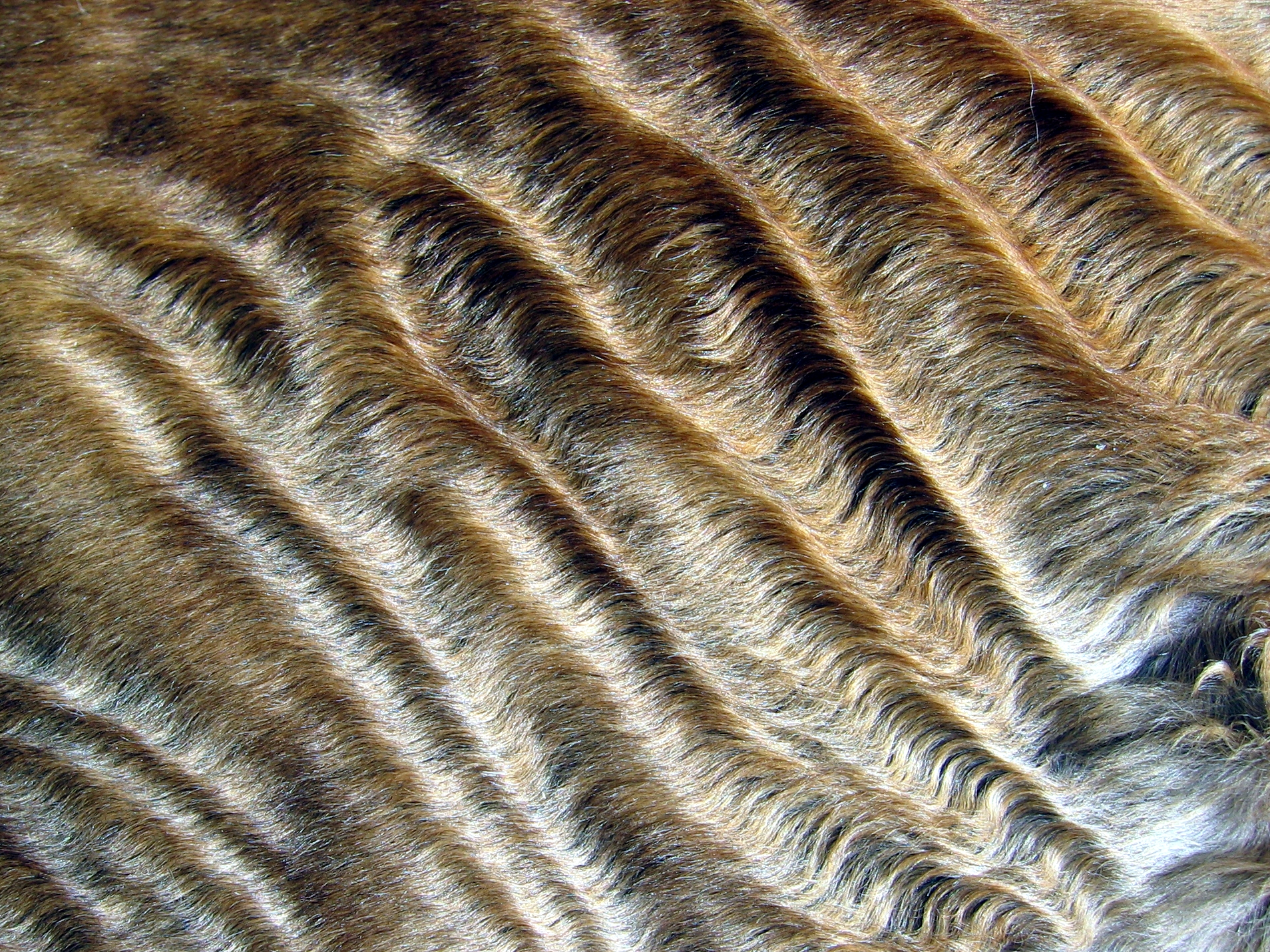 Wavy fur on the sides of a male Devon Rex cat. Gewelltes Fell an den Flanken eines Devon Rex Katers